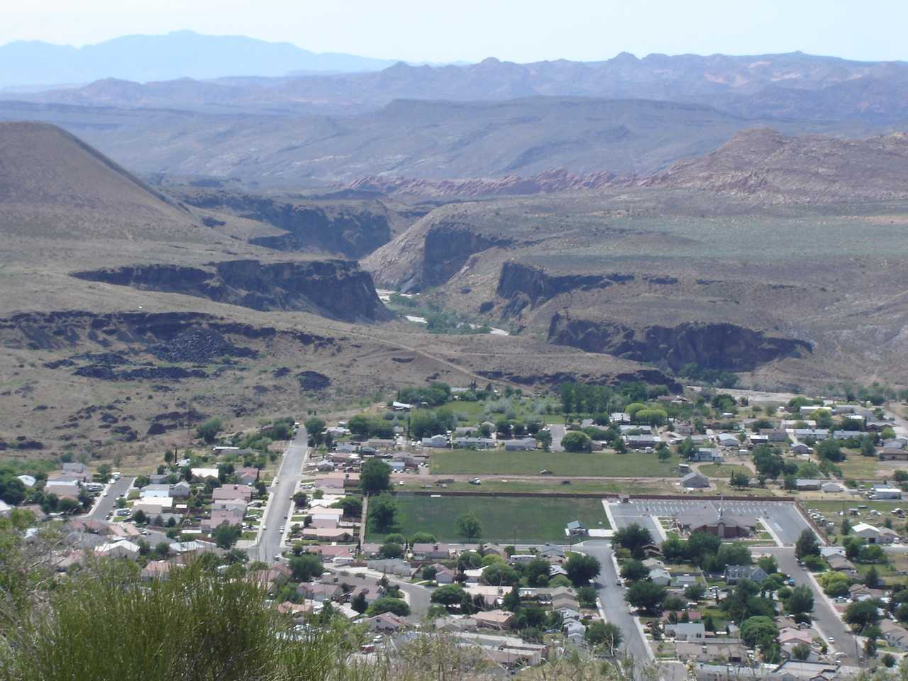 La Verkin in Washington County, Utah